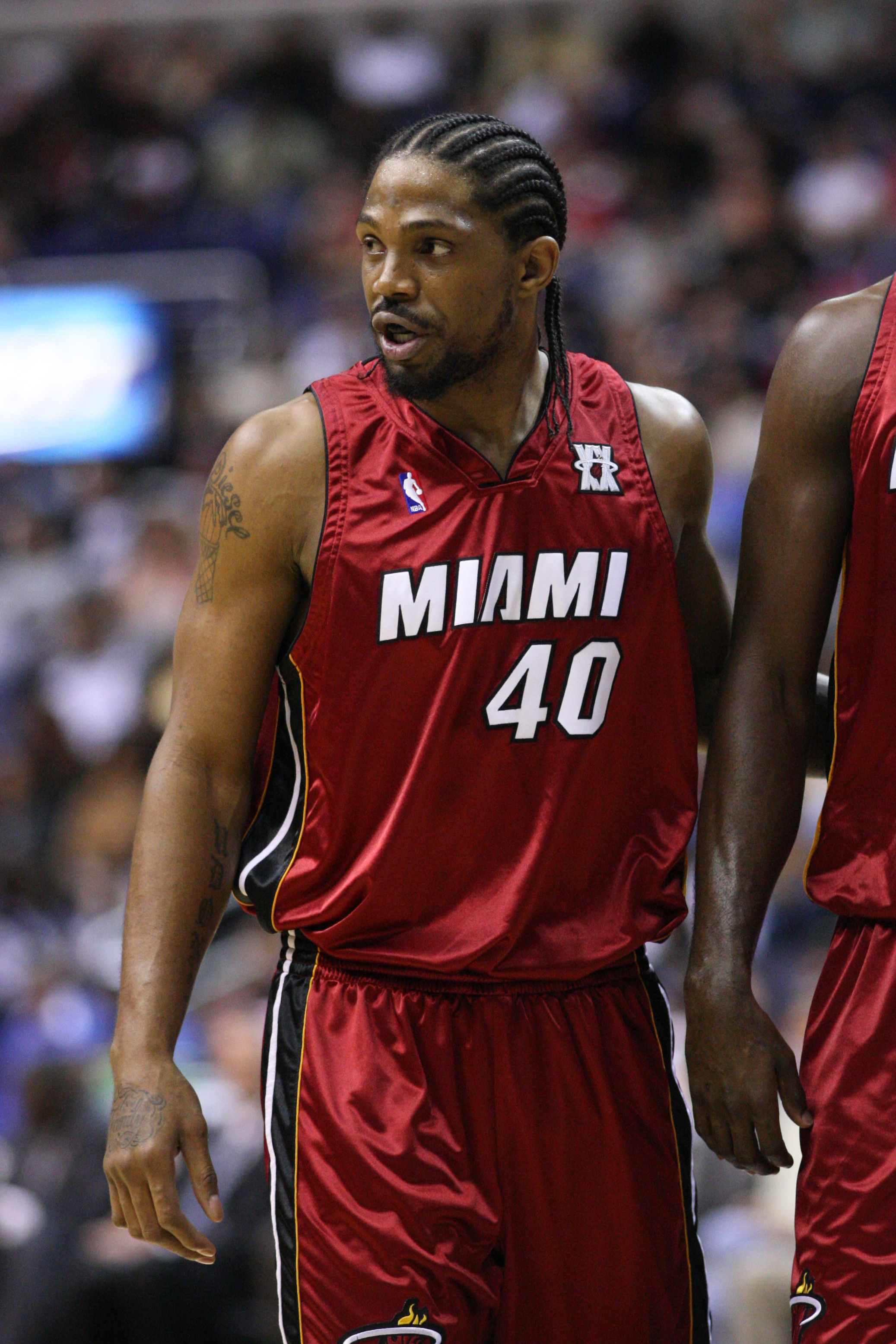 Udonis Haslem playing with the Miami Heat